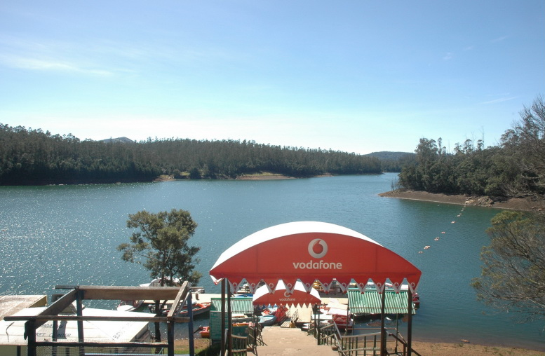 Pykara Lake near Ooty